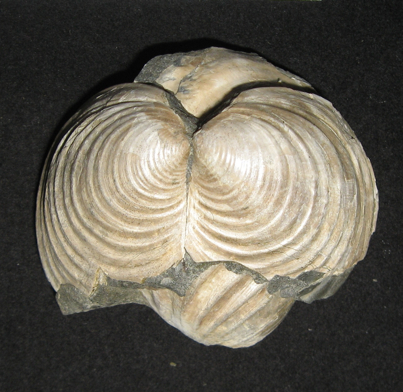 A partial specimen of an Inoceramus vancouverensis bivalve. Cretaceous, Little Sucia Island, San Juan County, Washington, USA. Burke Museum Specimen #98261. Photographed at Dinoday 2009.